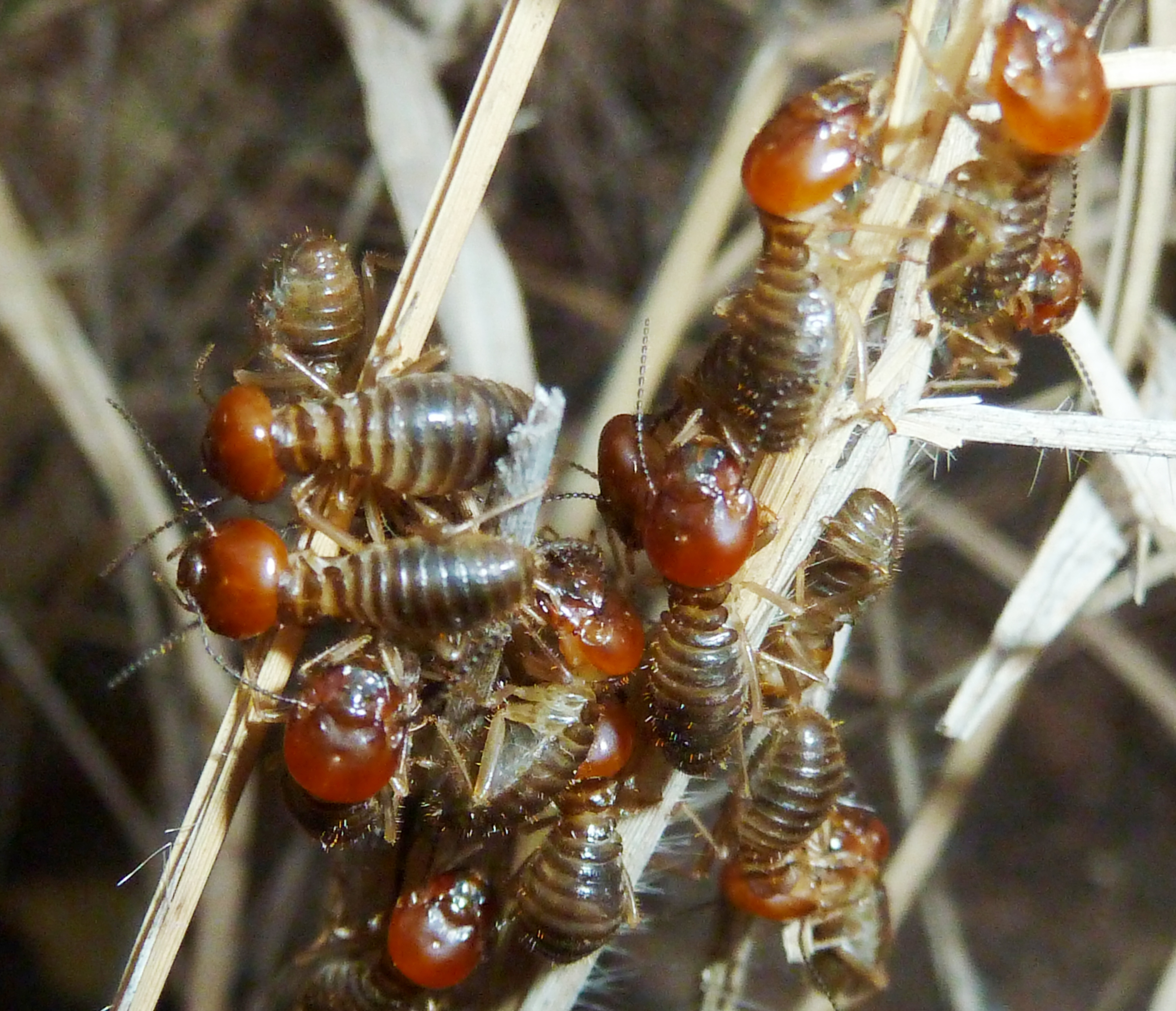 Workers of the Northern harvester termite dismembering dry grass blades at dusk, in the Spekboom hills, Limpopo. Their gnawing is audible where they are active. Though none are visible here, a few soldiers may mingle with the workers to inflict a painful bite on an intruder.